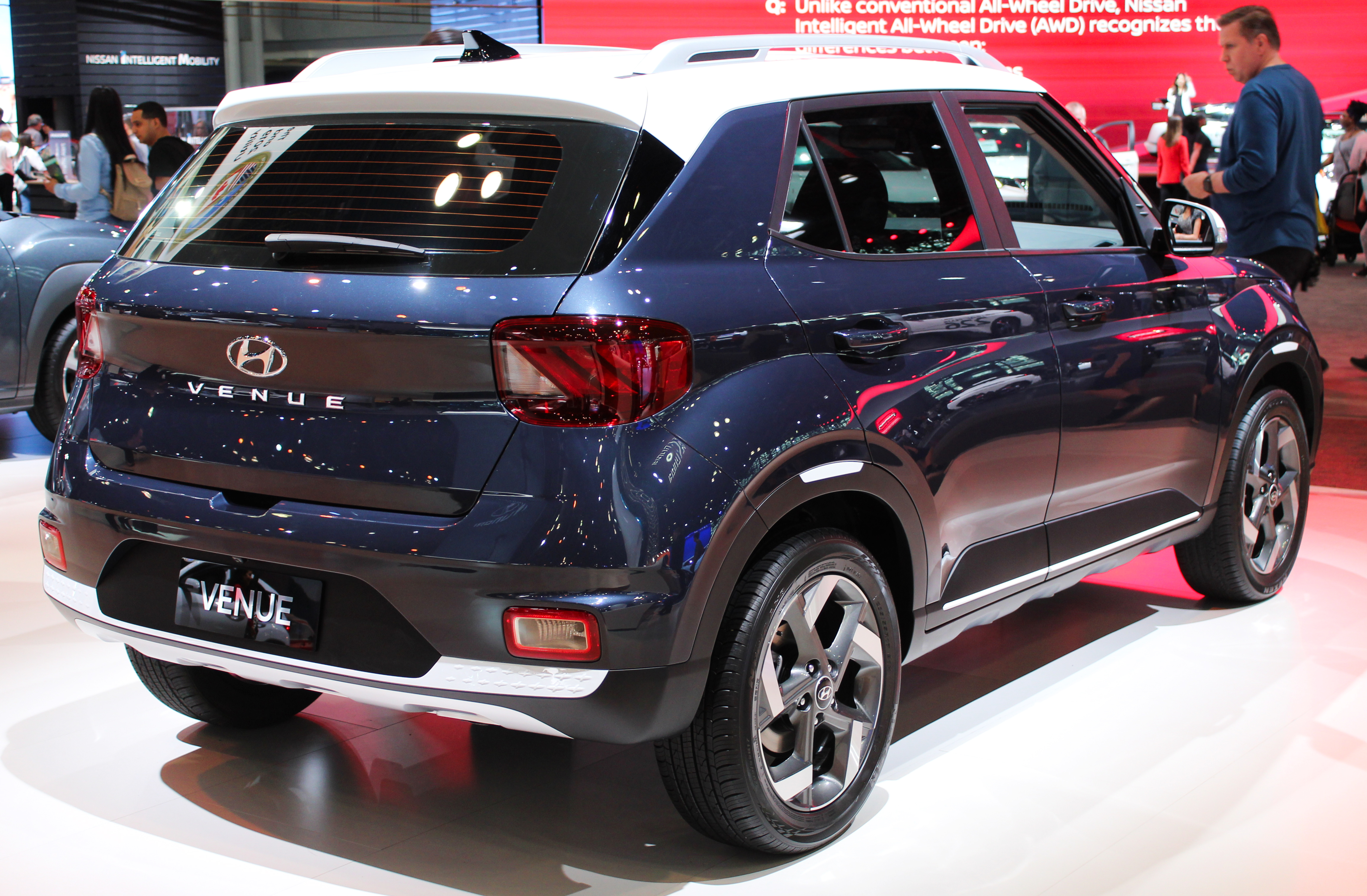 A 2019 Hyundai Venue photographed during the 2019 New York International Auto Show, in Hudson Yards, Manhattan, NYC